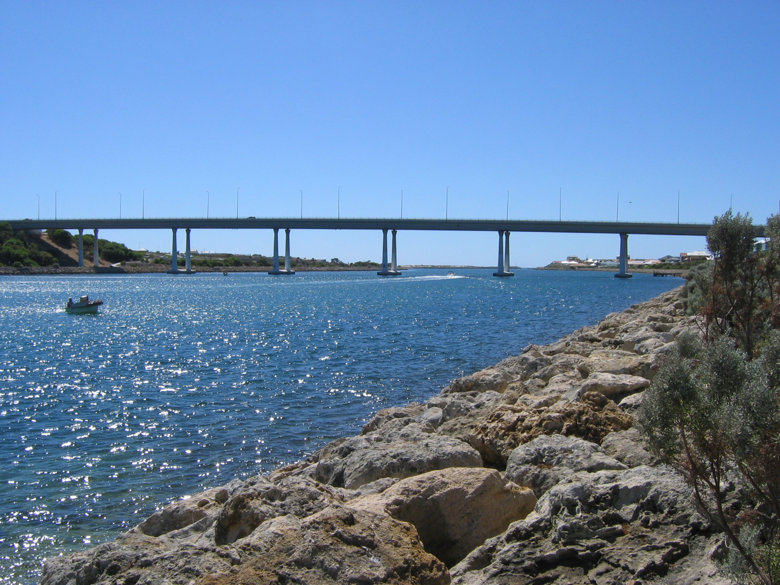 Dawesville Channel south of Mandurah, Western Australia showing the Port Bouvard Bridge on Old Coast Road.